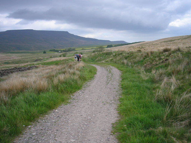 The High Way. This is an old road from Mallerstang to Wensleydale. It is now know part of Lady Anne's Way, named after the indomitable Lady Anne Clifford who travelled this route between her properties. More information on her can be found at Wild Boar Fell can be seen in the distance